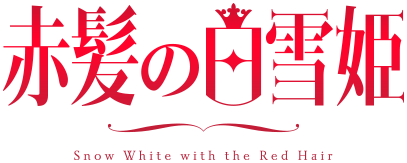 Akagami no Shirayukihime logo